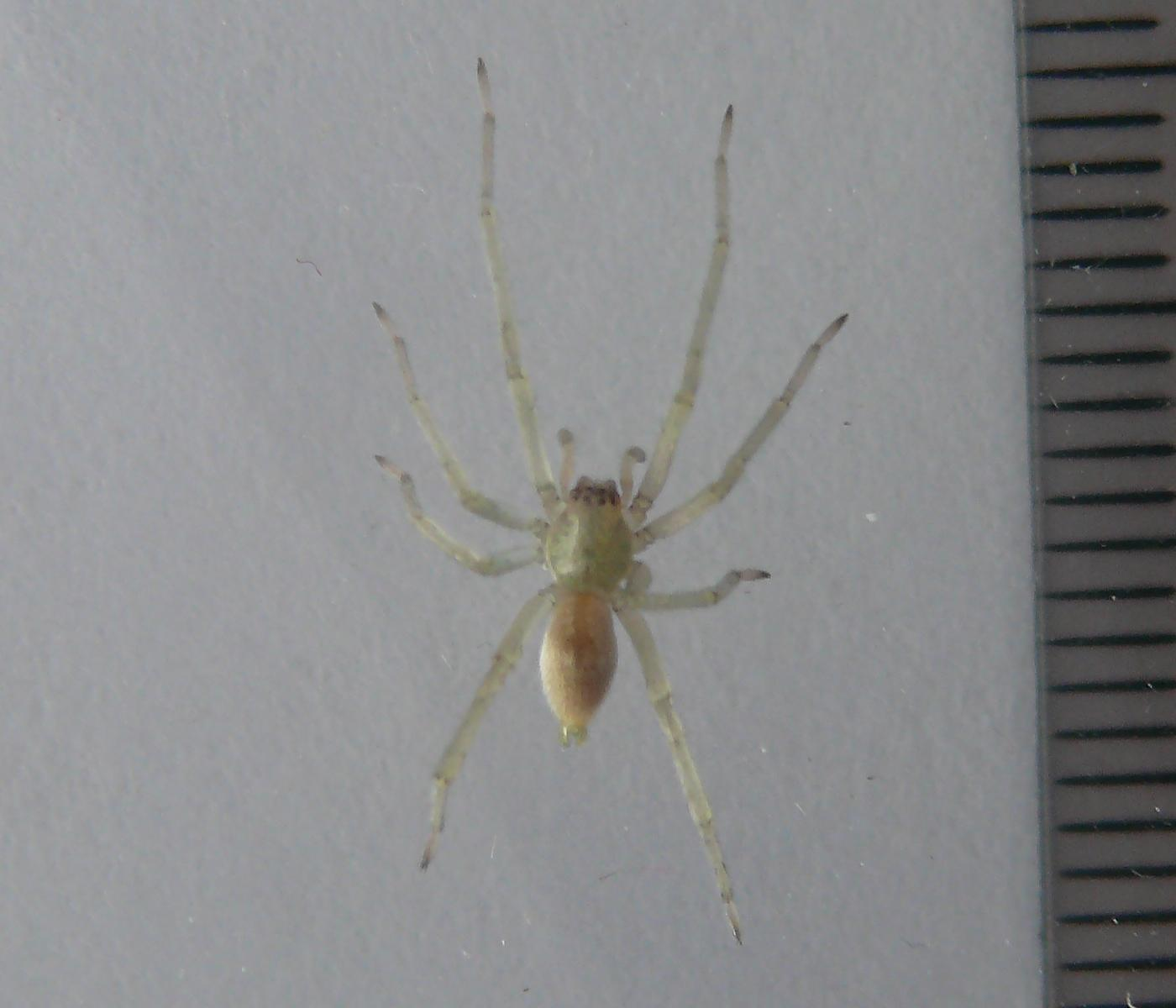 spider, see cat, found at 4:00 CEST at night in the corridor, middle-south germany. Ruler = mm